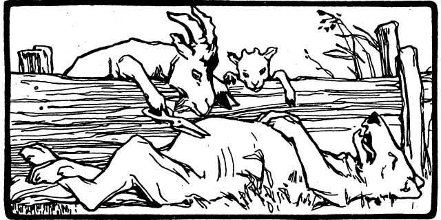 Illustration by Otto Ubbelohde to the fairy tale The Wolf and the Seven Young Goats